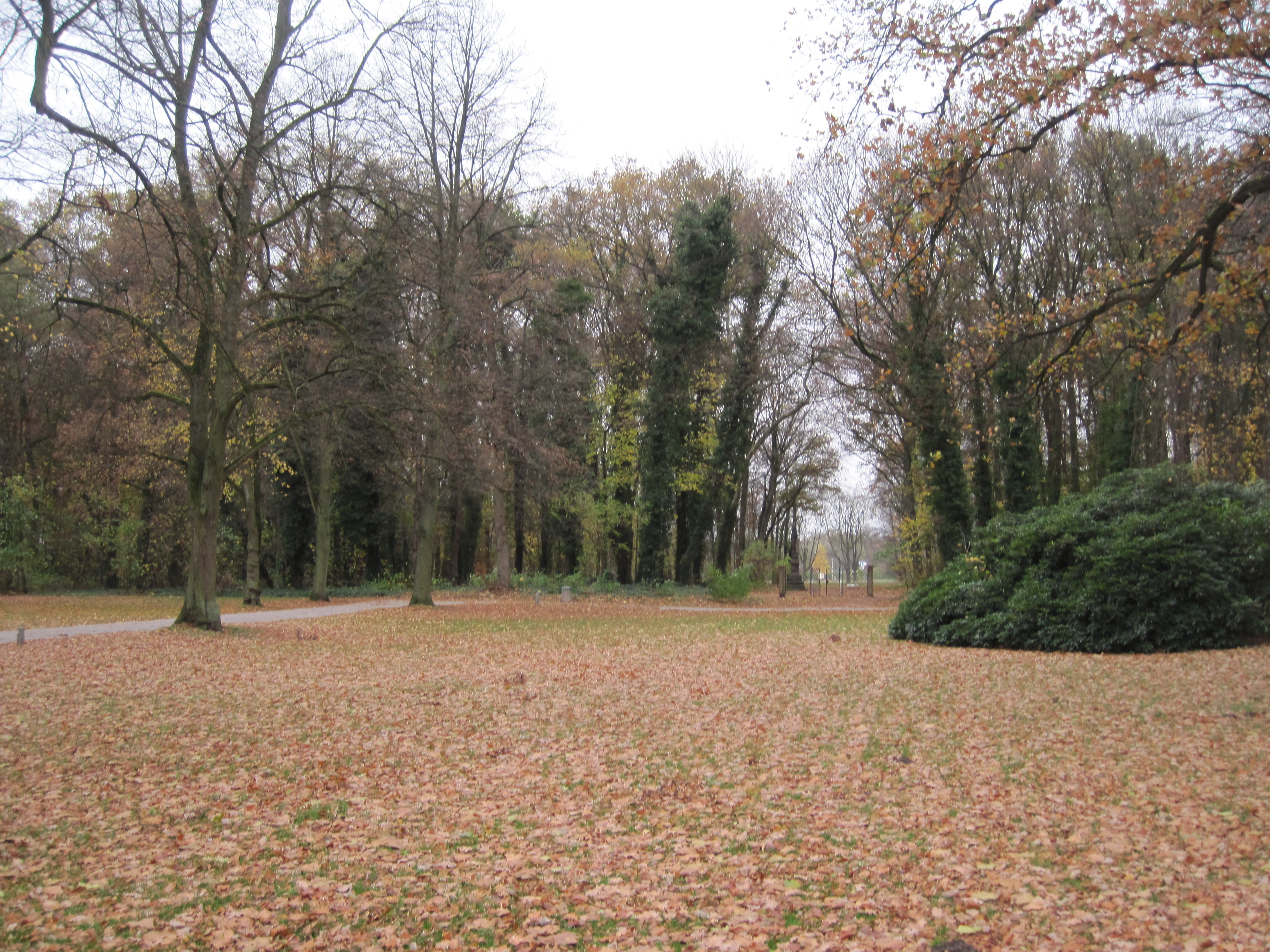 View down the line of sight into the winterly spa gardens.